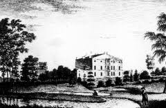 Wanlip Hall Leicestershire Palmer Family demolished in 1930s built about 1750. Charles Grave Hudson, 1st Baronet lived there